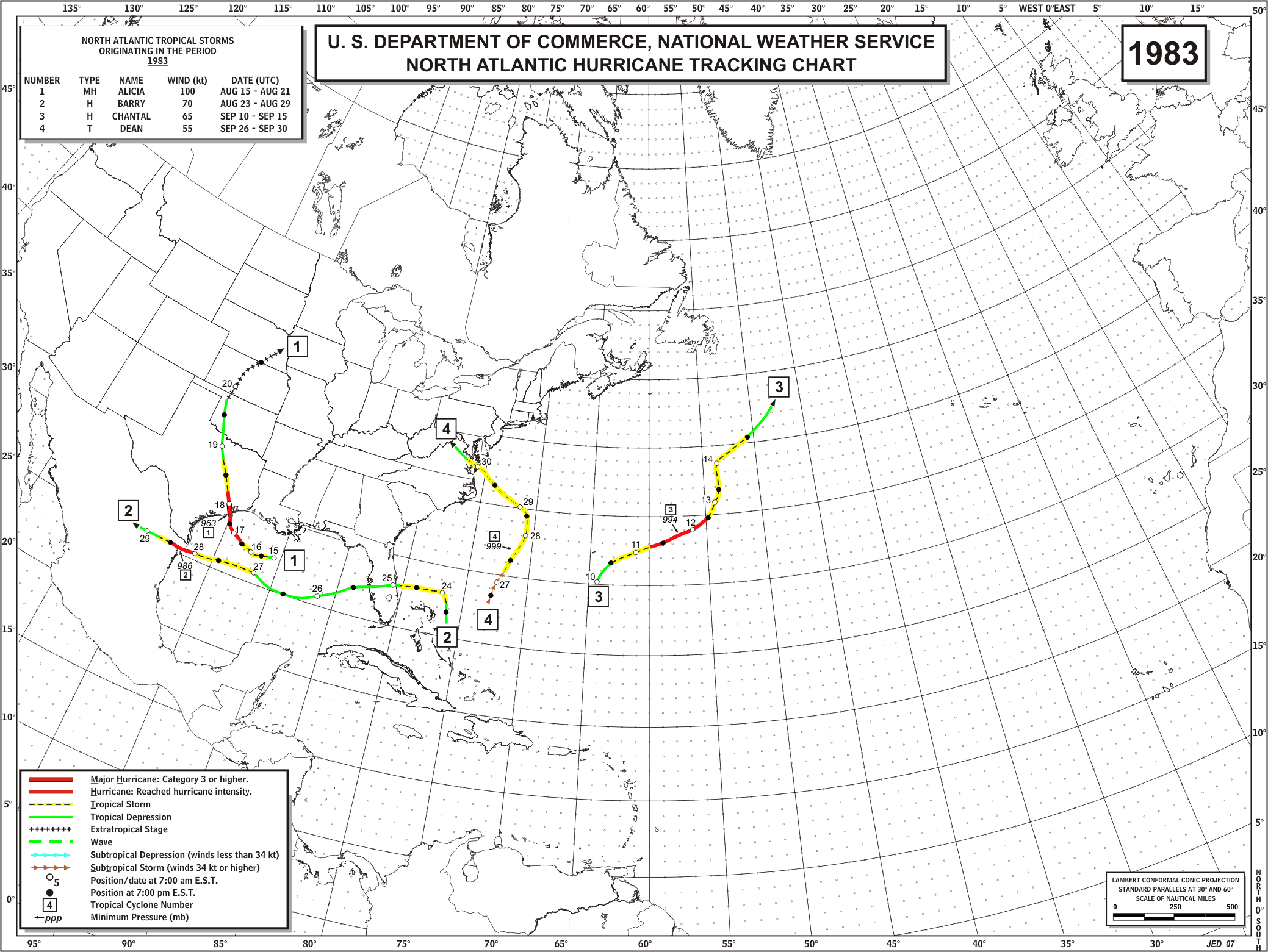 Season summary provided by NOAA of the 1983 Atlantic hurricane season.